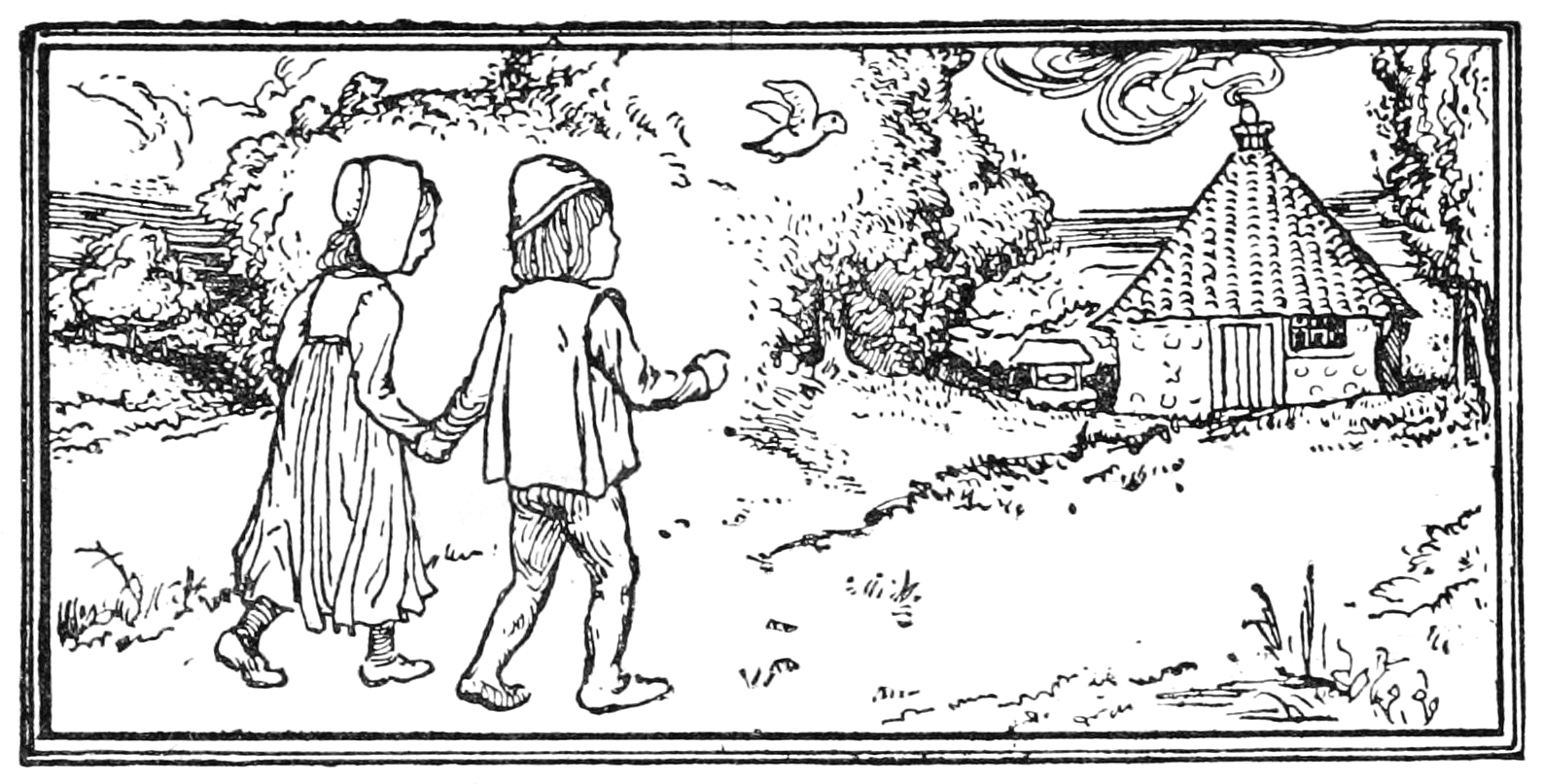 Illustration from a book of fairy tales